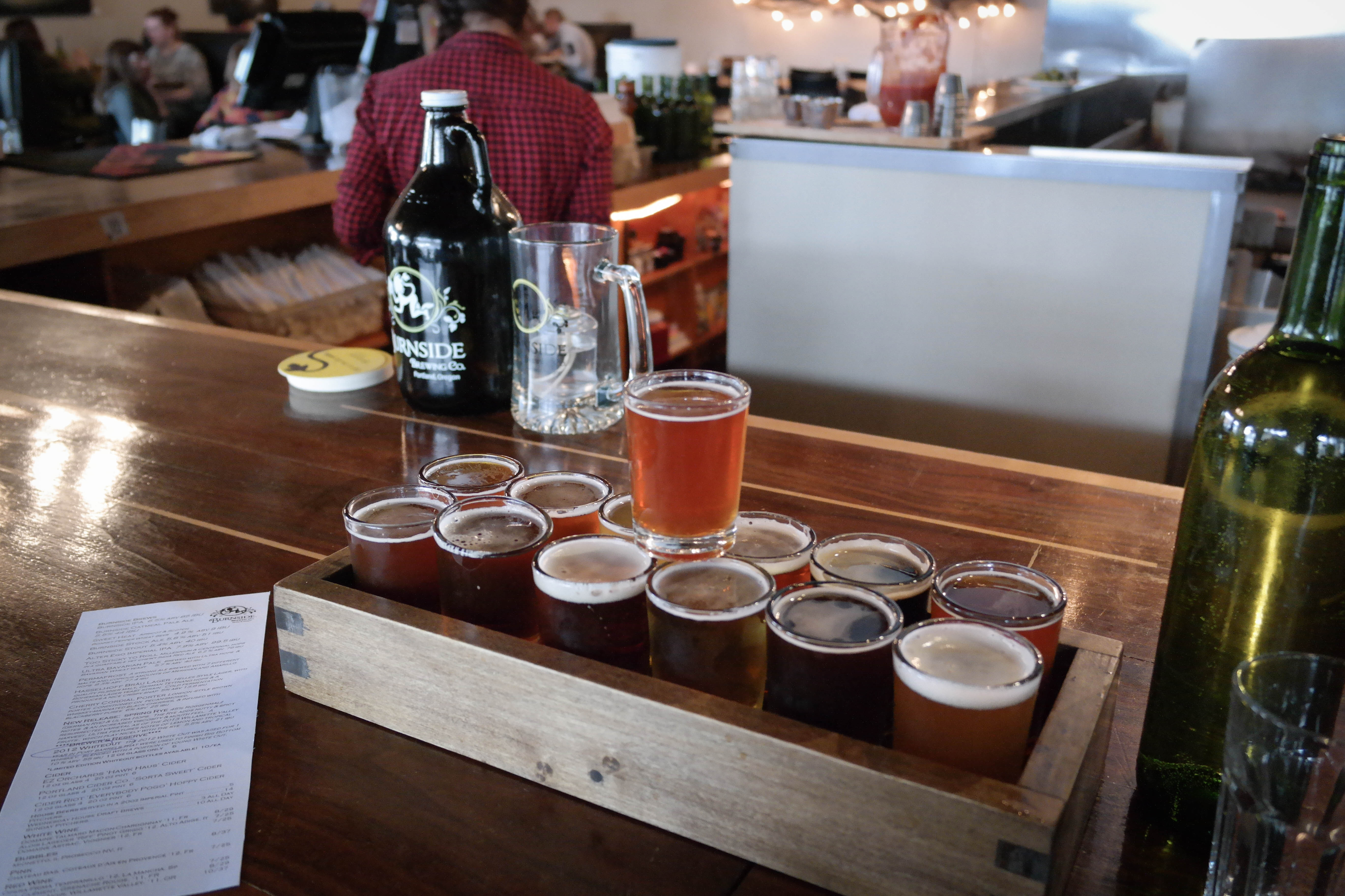 A taste of every beer on tap at Burnside Brewing in Portland, Oregon. Top: 2012 Whiteout, aged for one year in port barrels, 10% ABV. Back row: Burnside IPA, Burnside Oatmeal Pale Ale, Sweet Heat, Burnside Stock Ale, Burnside Stout, Alter Ego Imperial IPA. Front row: Too Sticky to Roll, Ultra Bavarian Pale, Permafrost, Hasselhoff Brau Lager, Cherry Cordial Porter, Spring Rye.